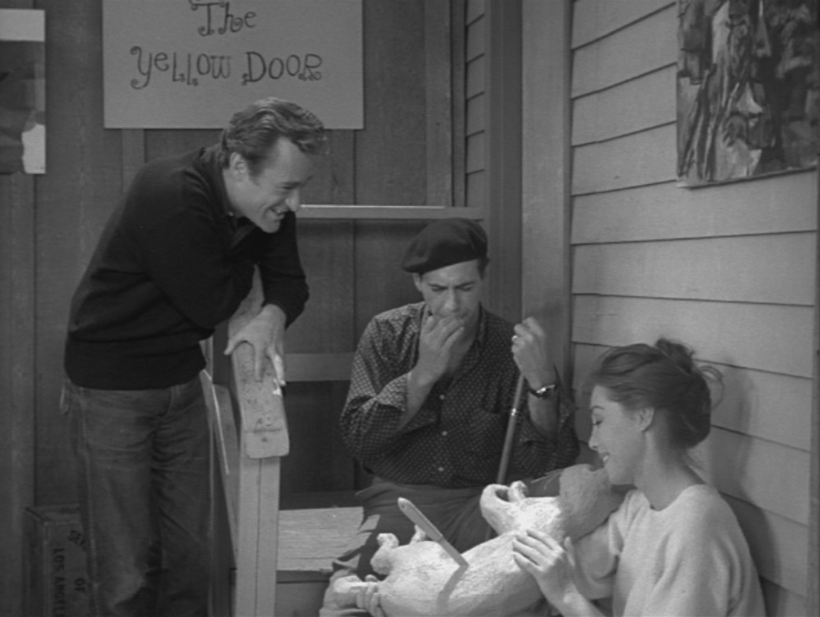 A scene from the public domain film A Bucket of Blood.